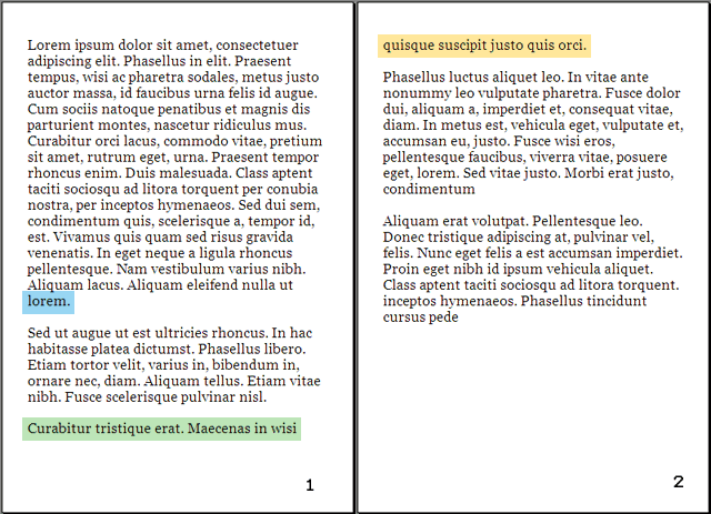 Example of orphan typesetting (highlighted), a so-called widow